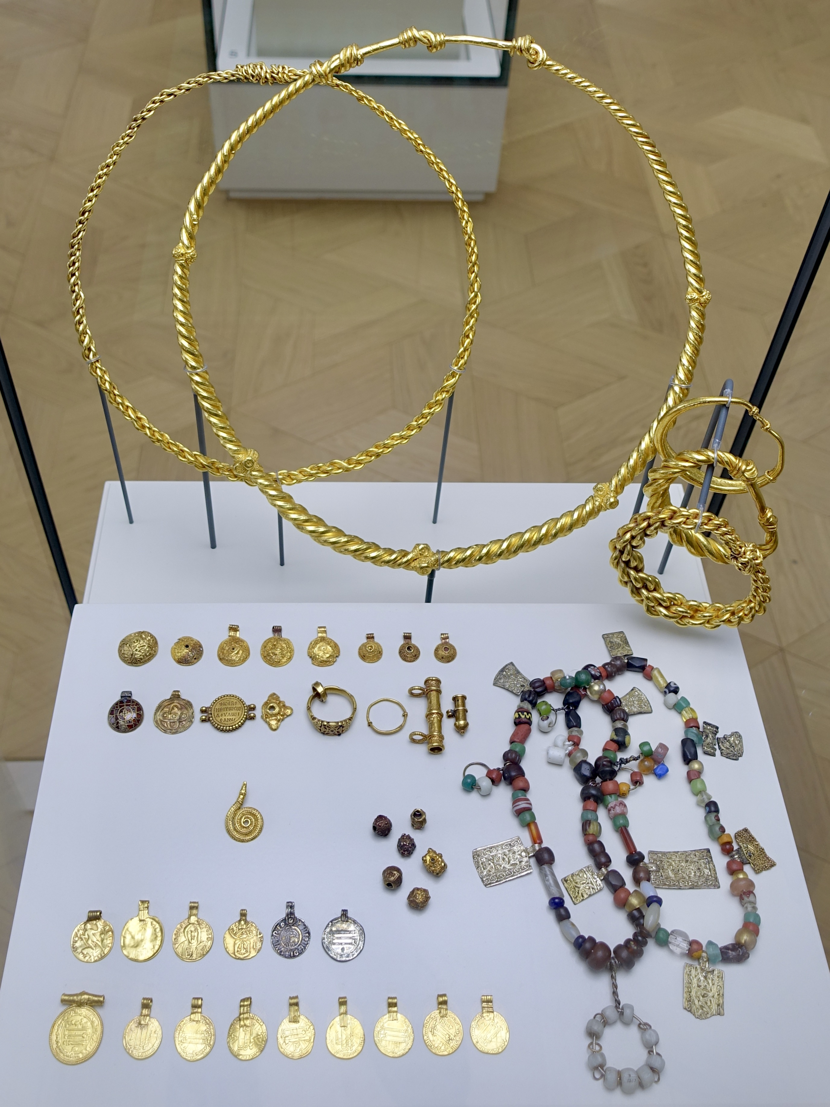 02. Parts of the Hon hoard (or Hoen hoard, in Norwegian: Hoenskatten), found in 1834 in Øvre Eiker, Buskerud in the south-east of Norway: neck and arm rings, Frankish jewelry, Arabian coins looped for wear on a necklace, necklace with glass beads, a Roman gemstone, an English ring, etc. The Hoen Hoard is the largest Viking-period gold hoard known from Norway. It includes 207 pieces, of which 54 are gold or silver-gilt objects, twenty coins, also of gold, a necklace with 132 beads of glass or semi-precious stone, two neck-rings, three arm rings, one finger-ring and a triangular shaped trefoil brooch formed of a Carolingian strap mount. The deposited gold treasure is dated to ca. 850–875-900.Photo taken on February 26th, 2020 at the VÍKINGR – Viking Age exhibition in the Museum of Cultural History of the University of Oslo (UiO Kulturhistorisk Museum) in Oslo, Norway, showing some of the most exquisite objects the museum has from the Norwegian Viking Age. Read more about the objects in English or Norwegian.